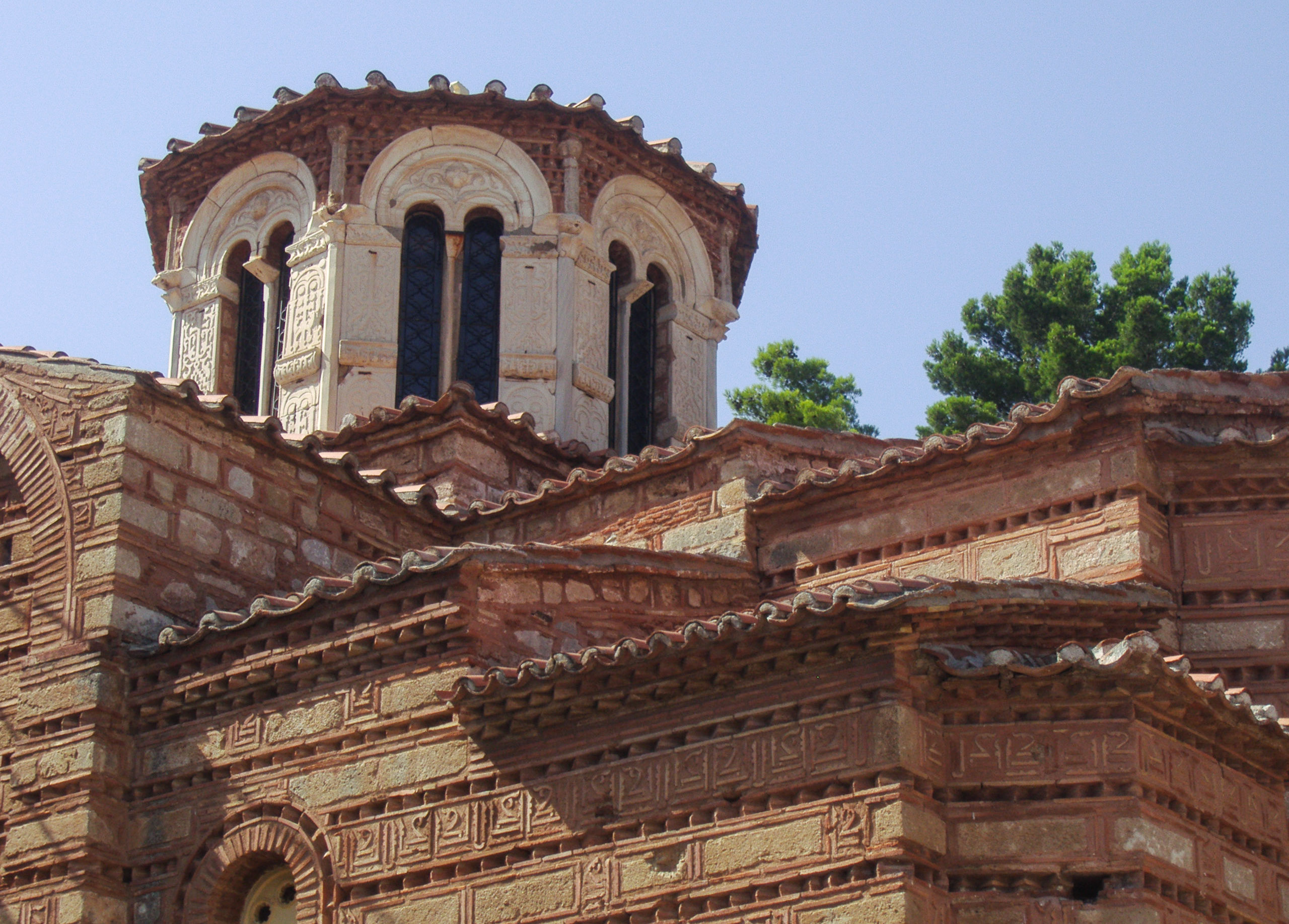 external view of the dome, Theotokos church, Hosios Loukas